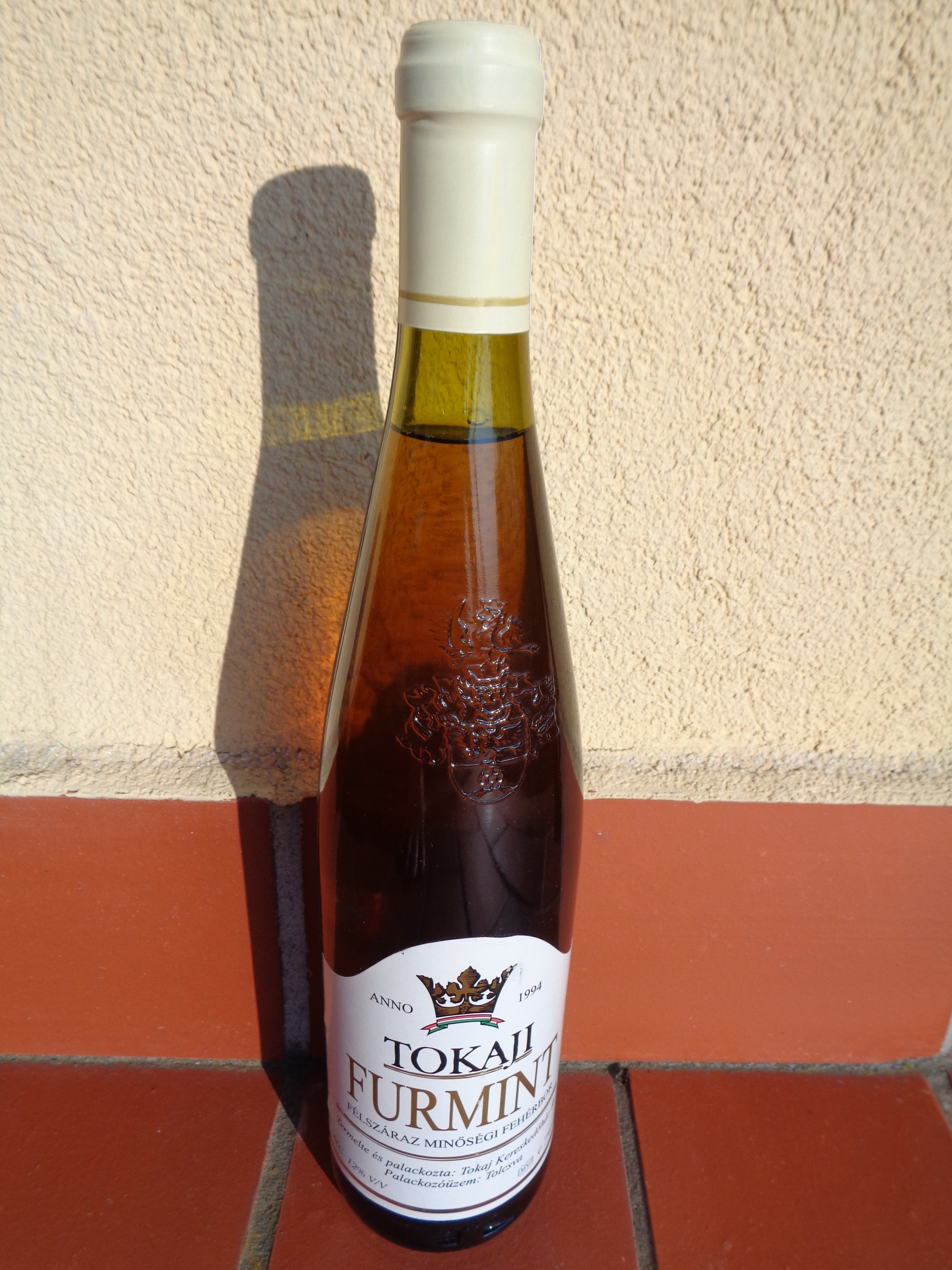 A bottle of Furmint wine of Tokaj, Hungary (1994 vintage)